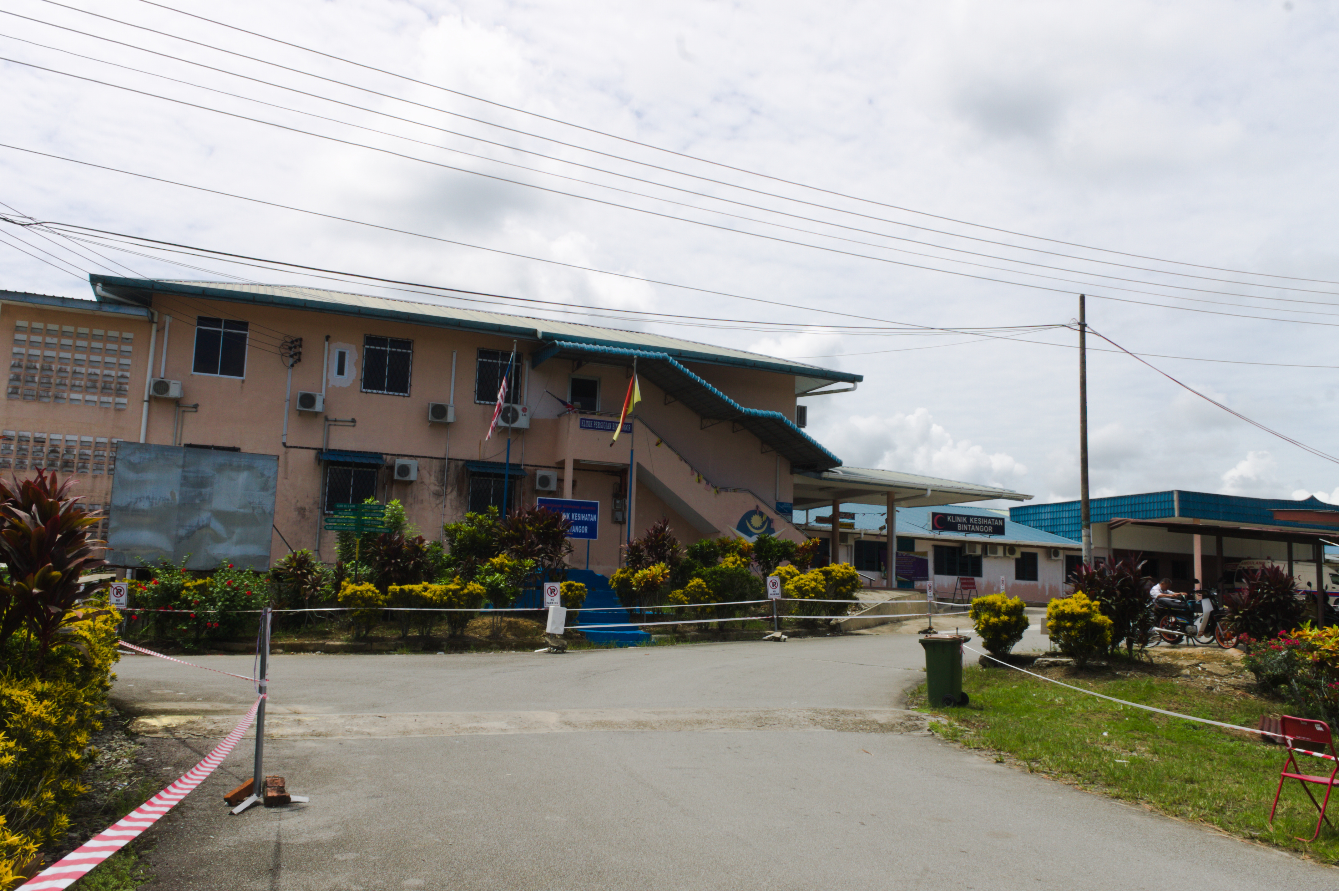 Bintangor public health clinic